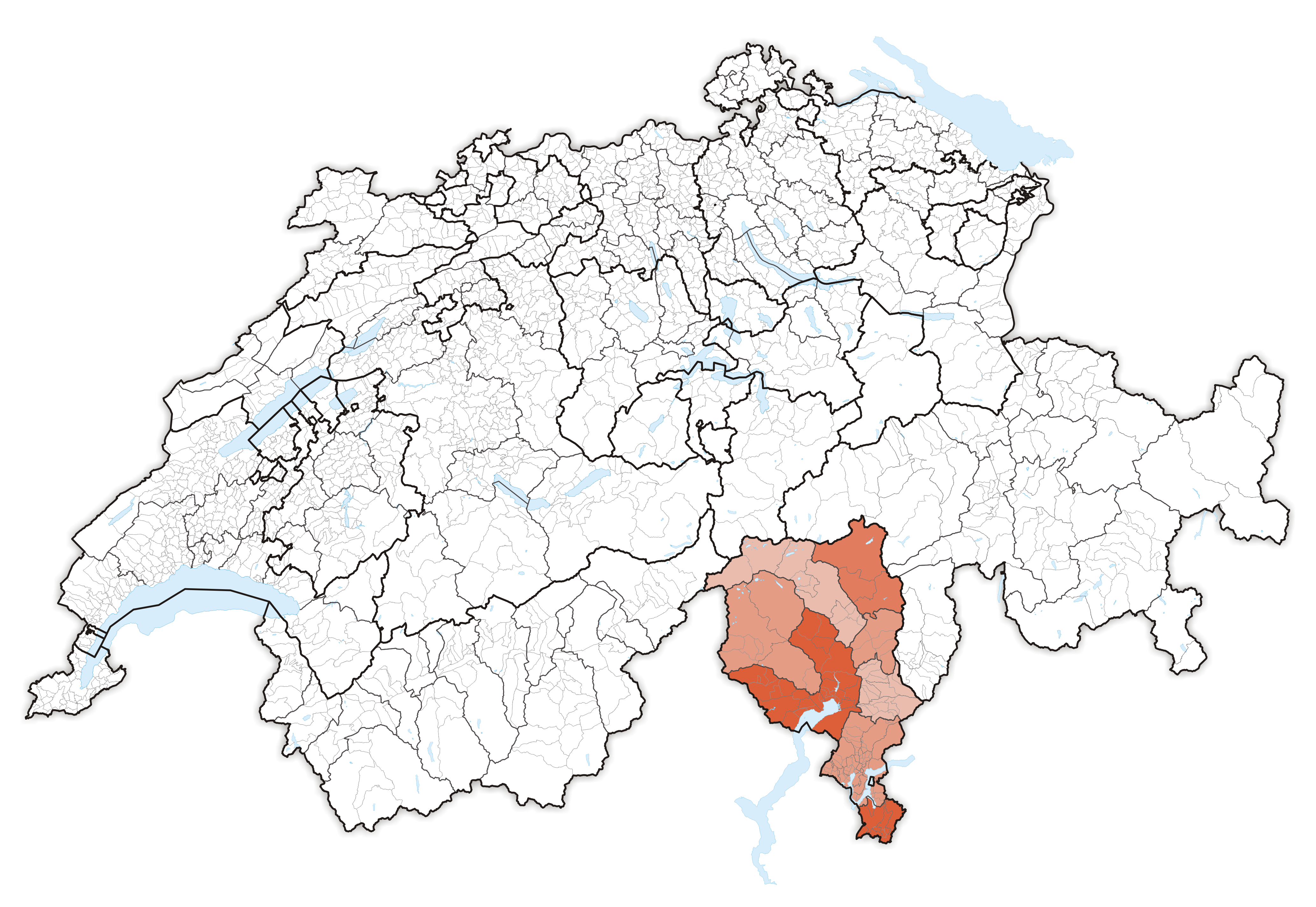 Canton Tessin